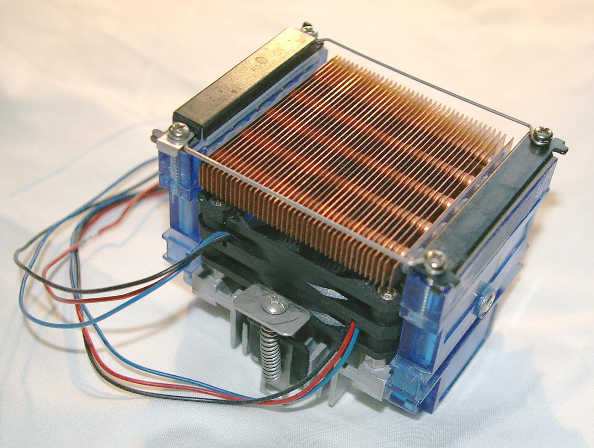 An integrated PC-watercooling system for AMD Duron- and Athlon systems